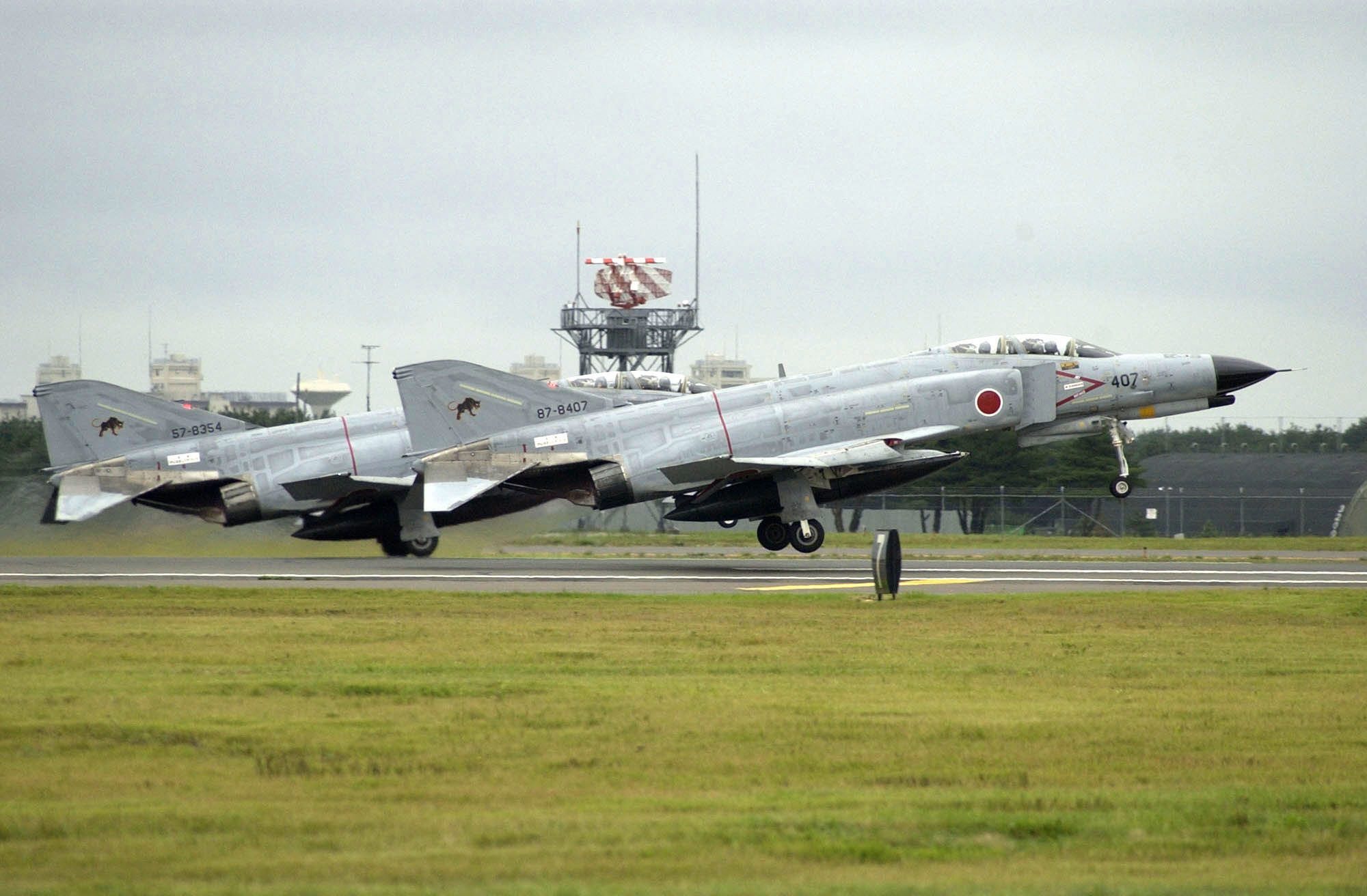 Naval Air Facility Misawa, Japan (Sep. 8, 2002) -- A pair of Japanese Air Self Defense Force (JASDF) F-4EJ kai “Phantoms” (57-8354 & 87-8407) of 8 Sqn take off from one of the runways on the Misawa Air Base during their annual Air Festival. (U.S. Navy photo by Photographer’s Mate 2nd Class John Collins/ Released)